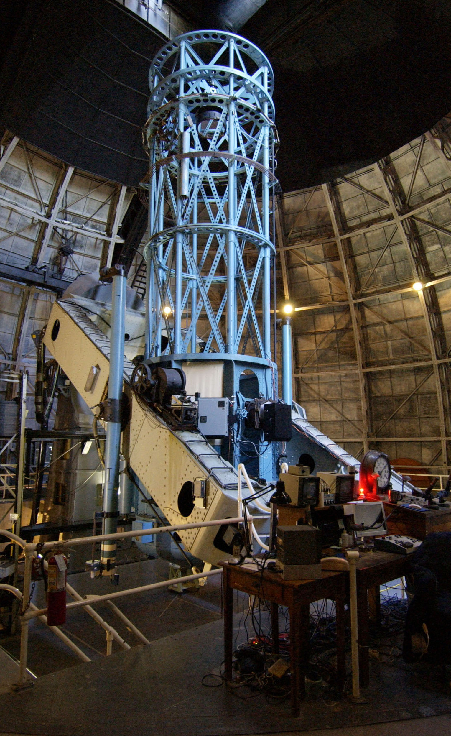 This is the 100 inch (2.5 M.) Hooker Telescope at the Mount Wilson Observatory in Los Angeles County, California. It was used by Edwin Hubble to determine that some nebulae were actually galaxies outside our own Milky Way. Hubble, assisted by Milton L. Humason, discovered the presence of the redshift that indicated the universe is expanding.